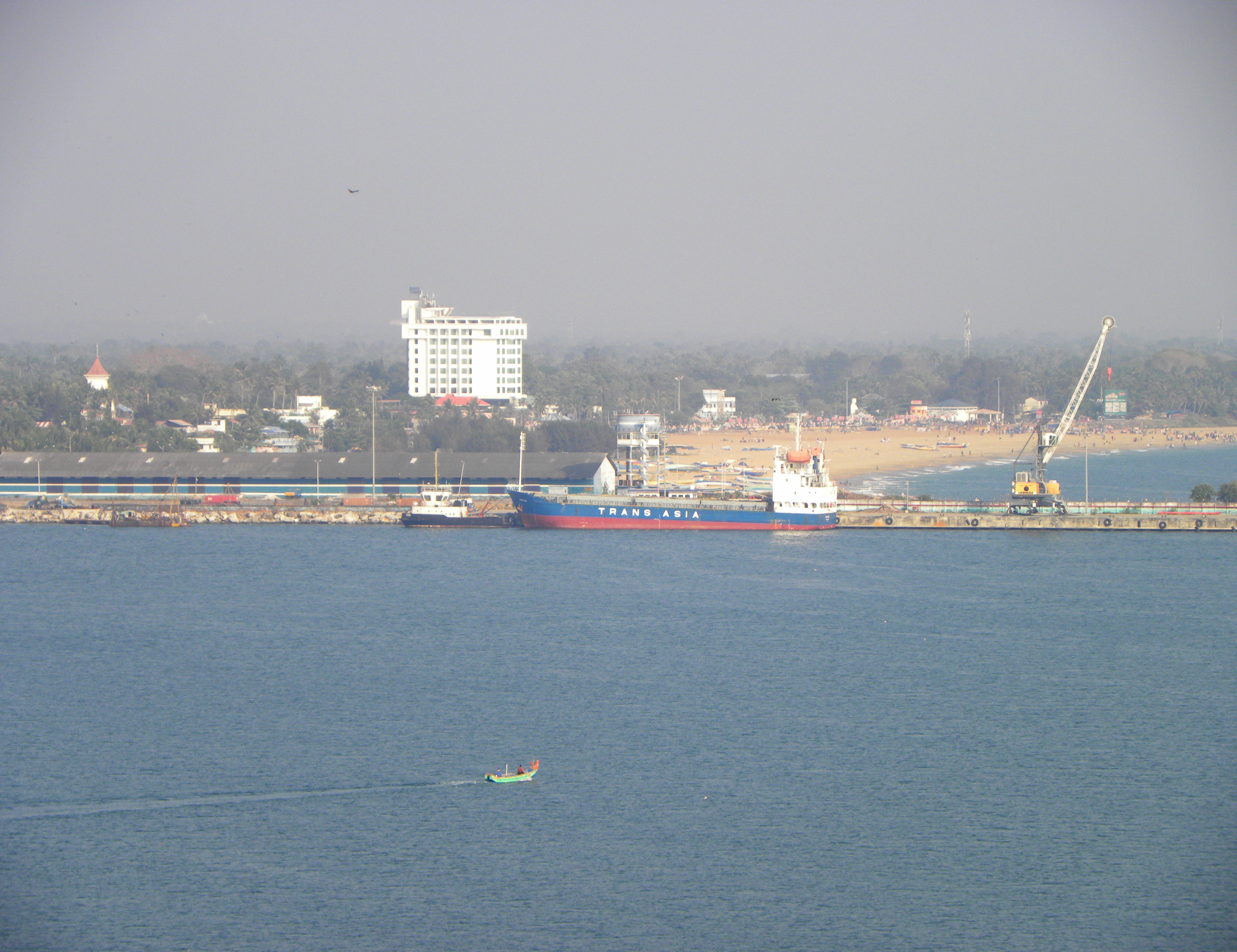 Port of Quilon is the second largest port in Kerala state, India